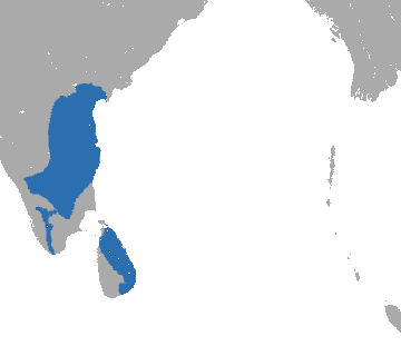 Tufted Gray Langur (Semnopithecus priam) range